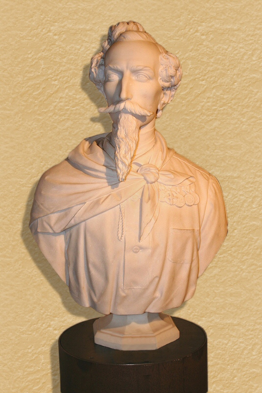 Bust of Francesco Nullo, italian patriot